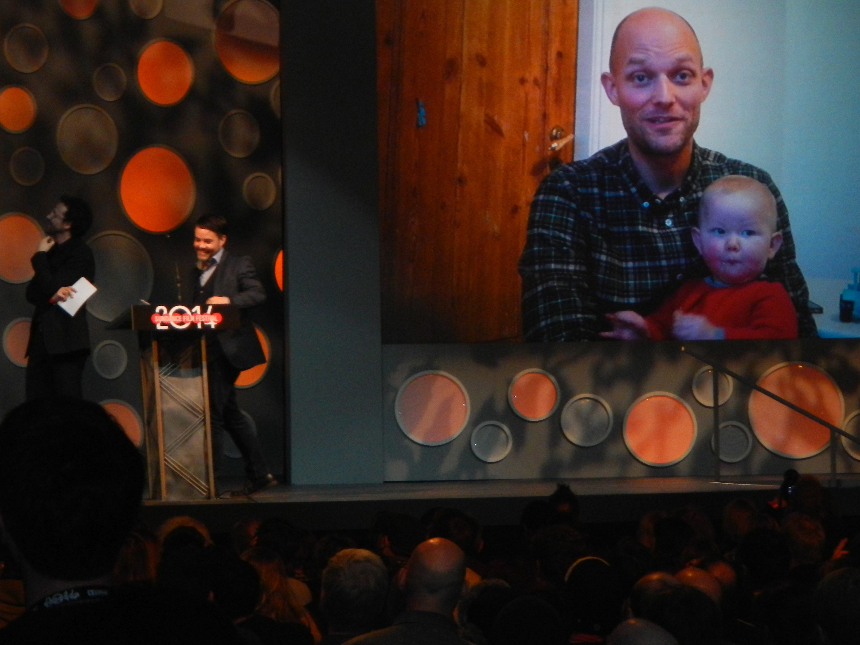 Eskil Vogt with baby Skyping the Sundance 2014 Awards Ceremony. Blind won the Screenwriting Award at the 2014 Sundance Film Festival.